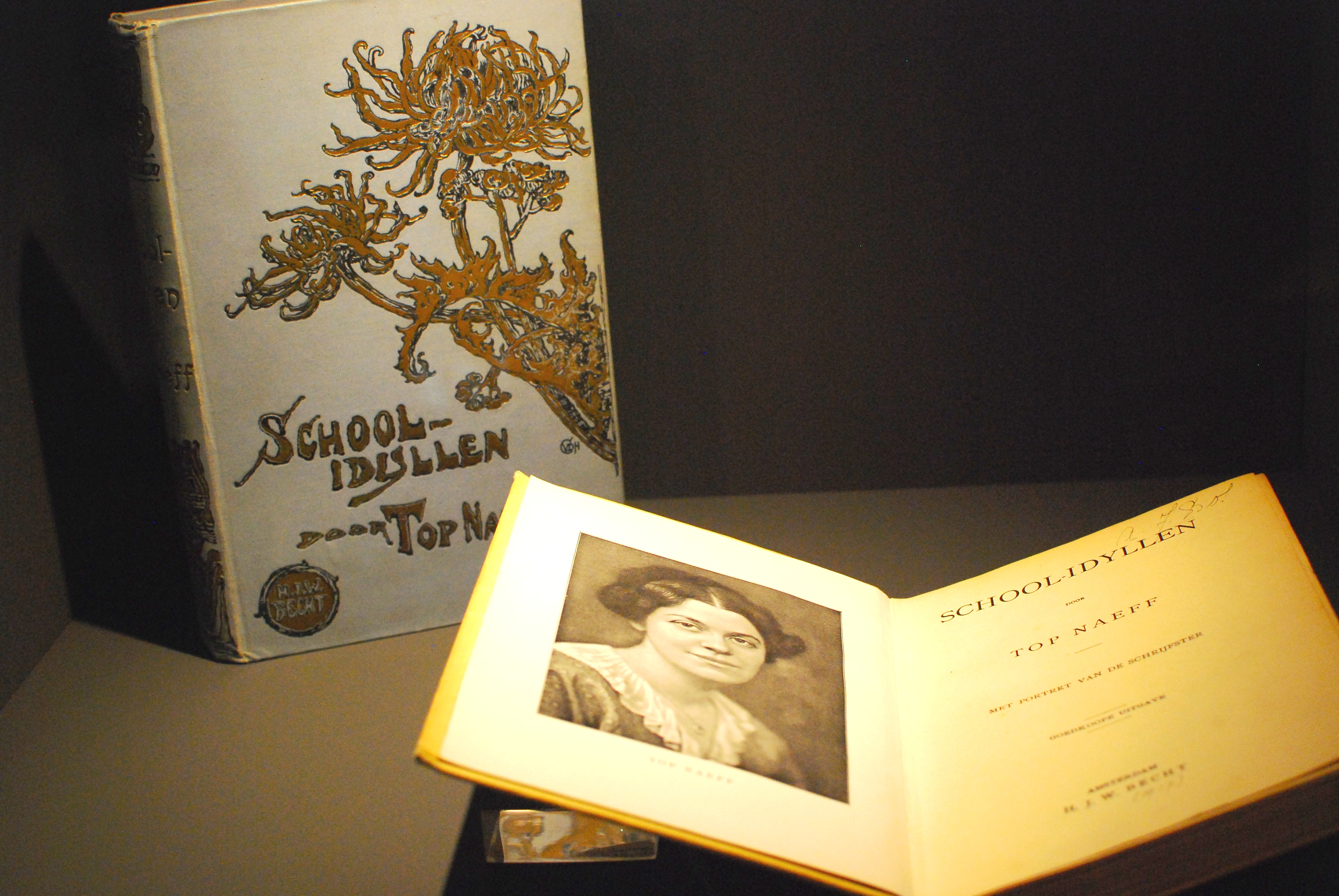 Early edition of Top Naeff´s "School-idyllen" exhibited in the "Museum van het boek" (Museum Meermanno) in Den Haag.